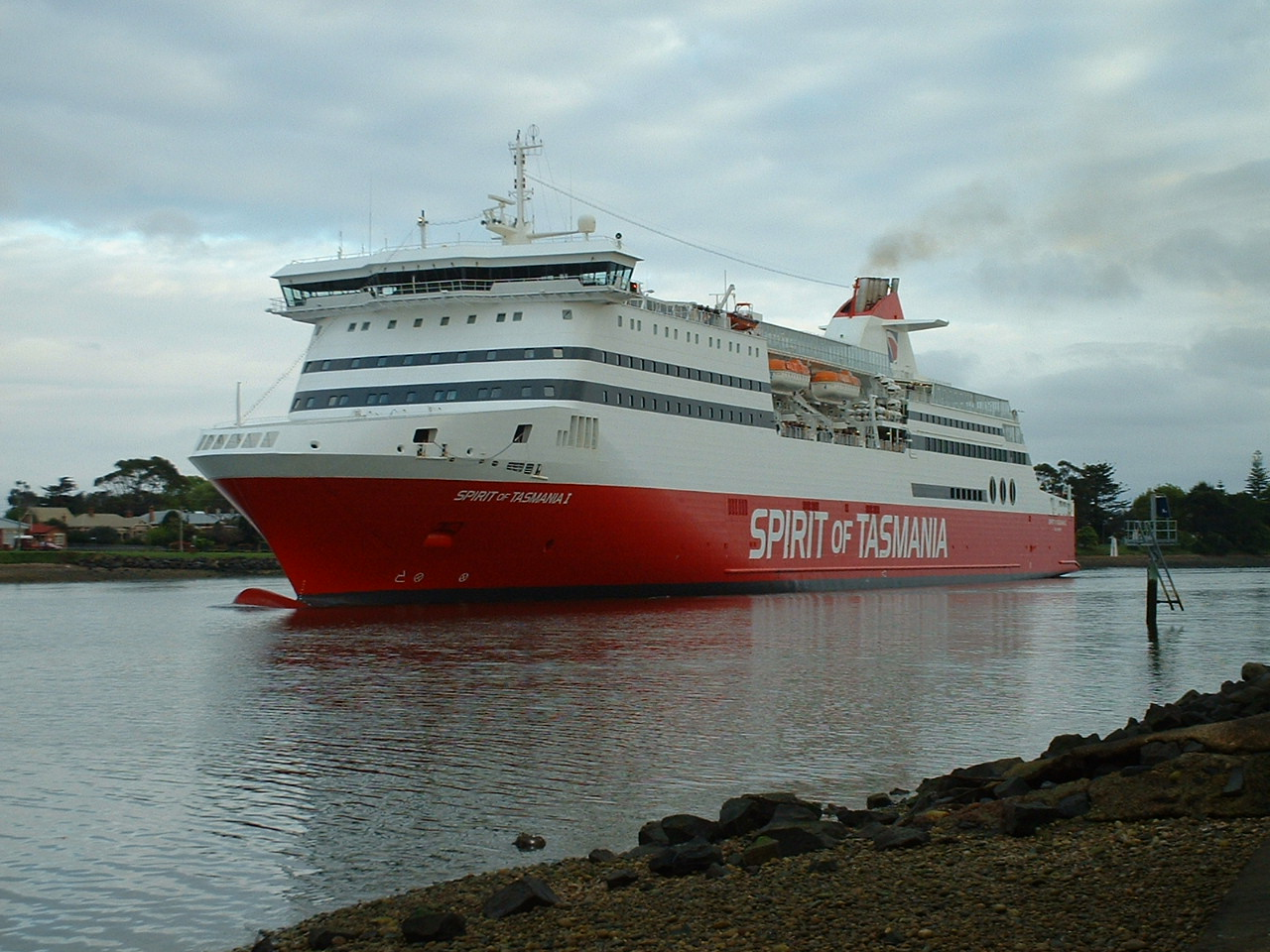 Spirit of Tasmania in the river at Devonport, Tasmania